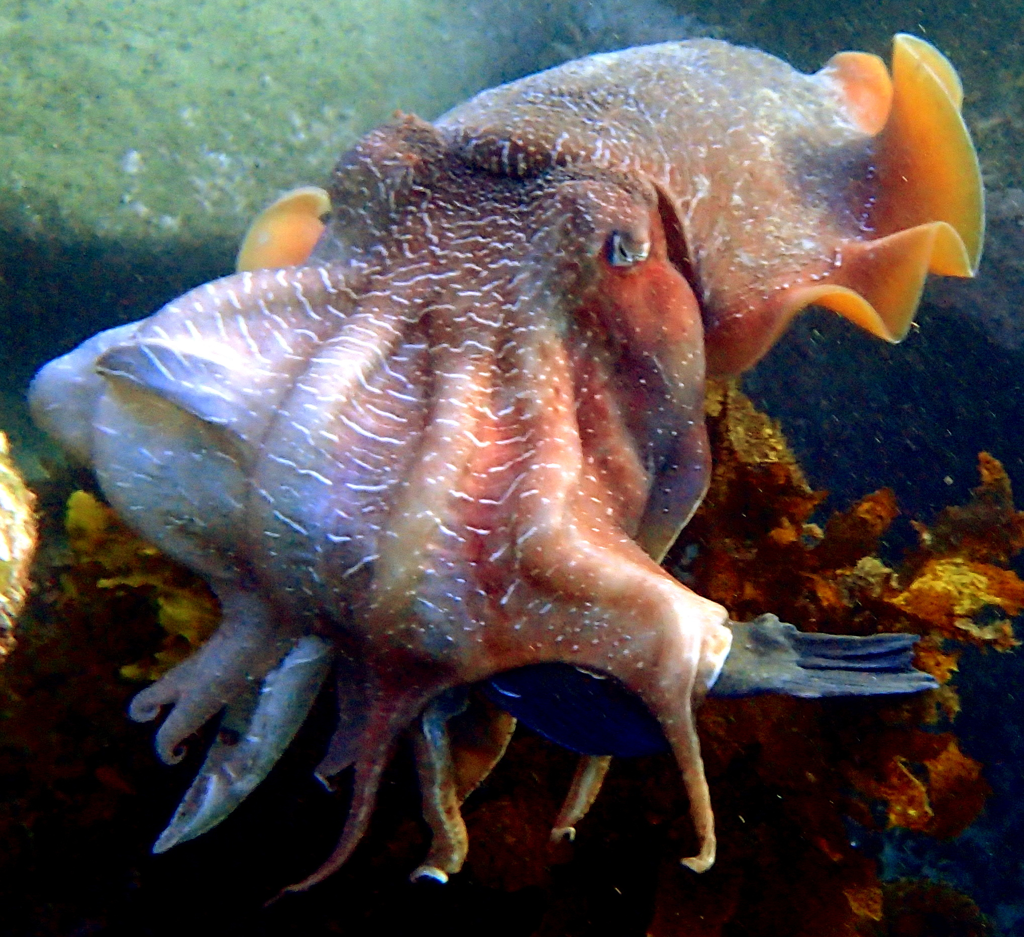 You can clearly see the shape of the Groper and it's blue tail sticking out. Giant Cuttlefish are amazing to watch but it would be extremely rare to see one about to devour such a large fish as the Groper.